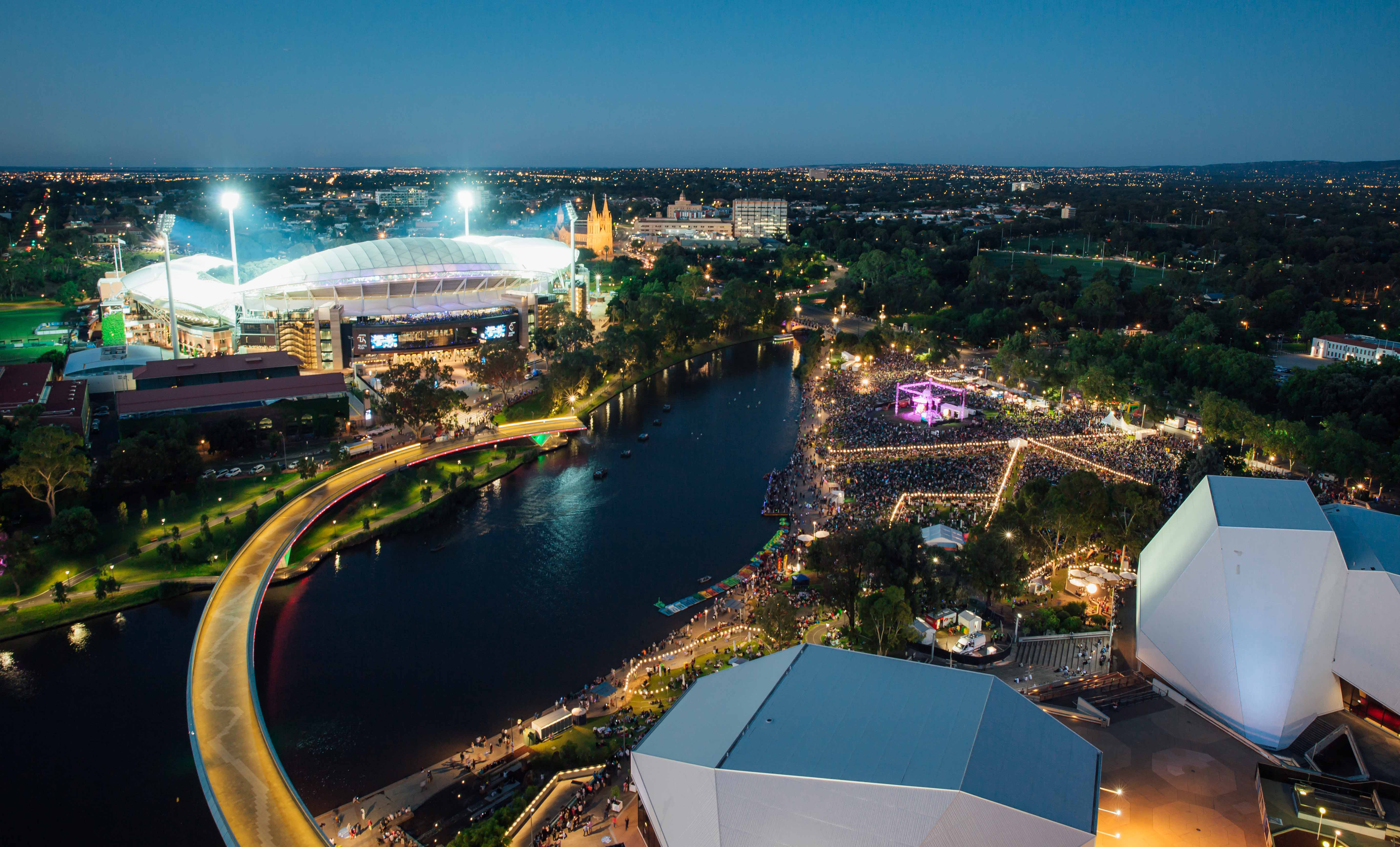 Aerial view of Adelaide on New Year's Eve. Overlooking the riverbank towards Adelaide Oval.